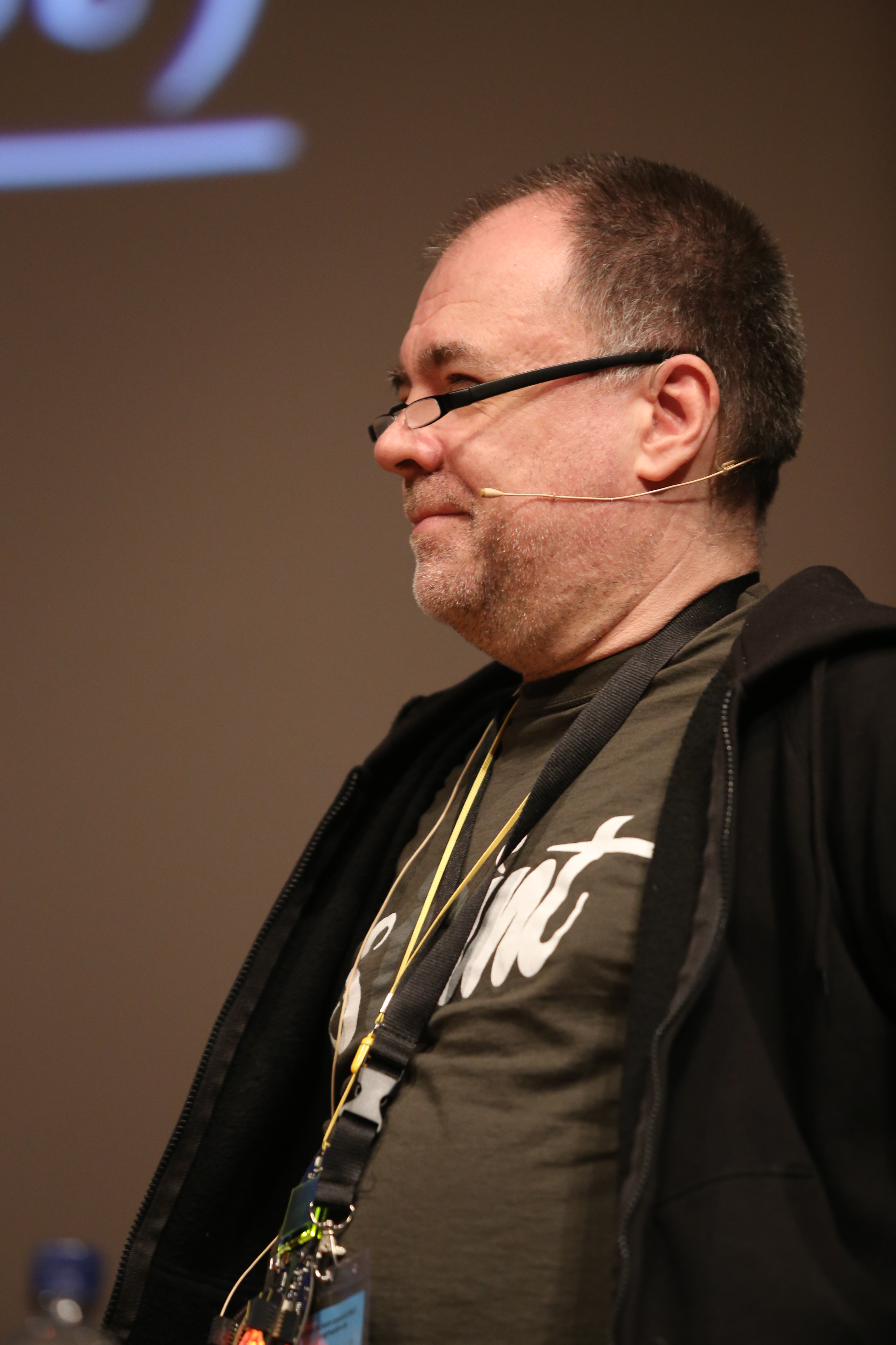 Martin Haase at the 30th Chaos Communication Congress